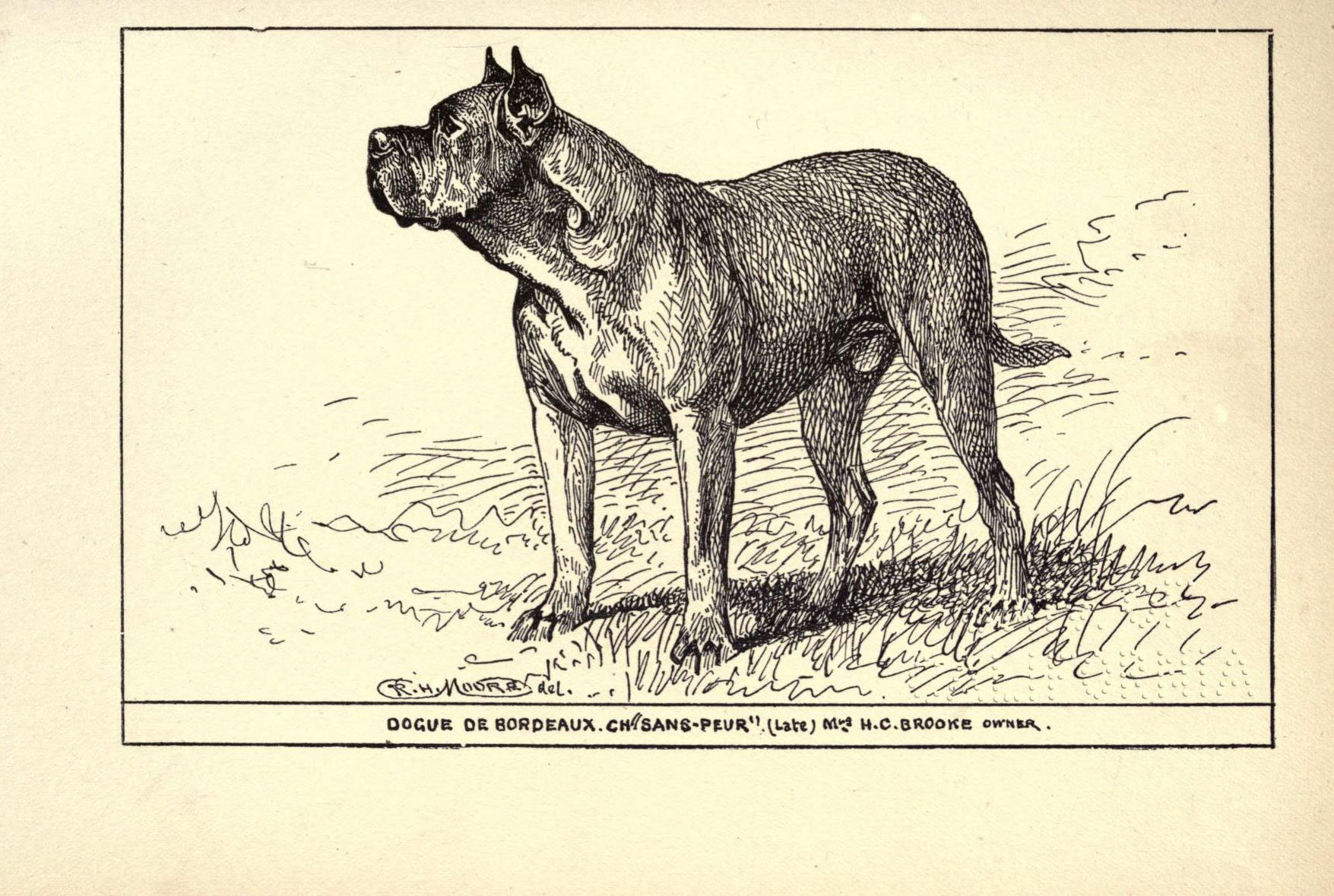 All about dogs; a book for doggy people ( New York, J. Lane, 1900~1901. “DOGUE DE BORDEAUX. CH "SANS-PEUR" (Late) Mrª H.C.BROOKE OWNER.”DRAW BY R.H.MOORE.